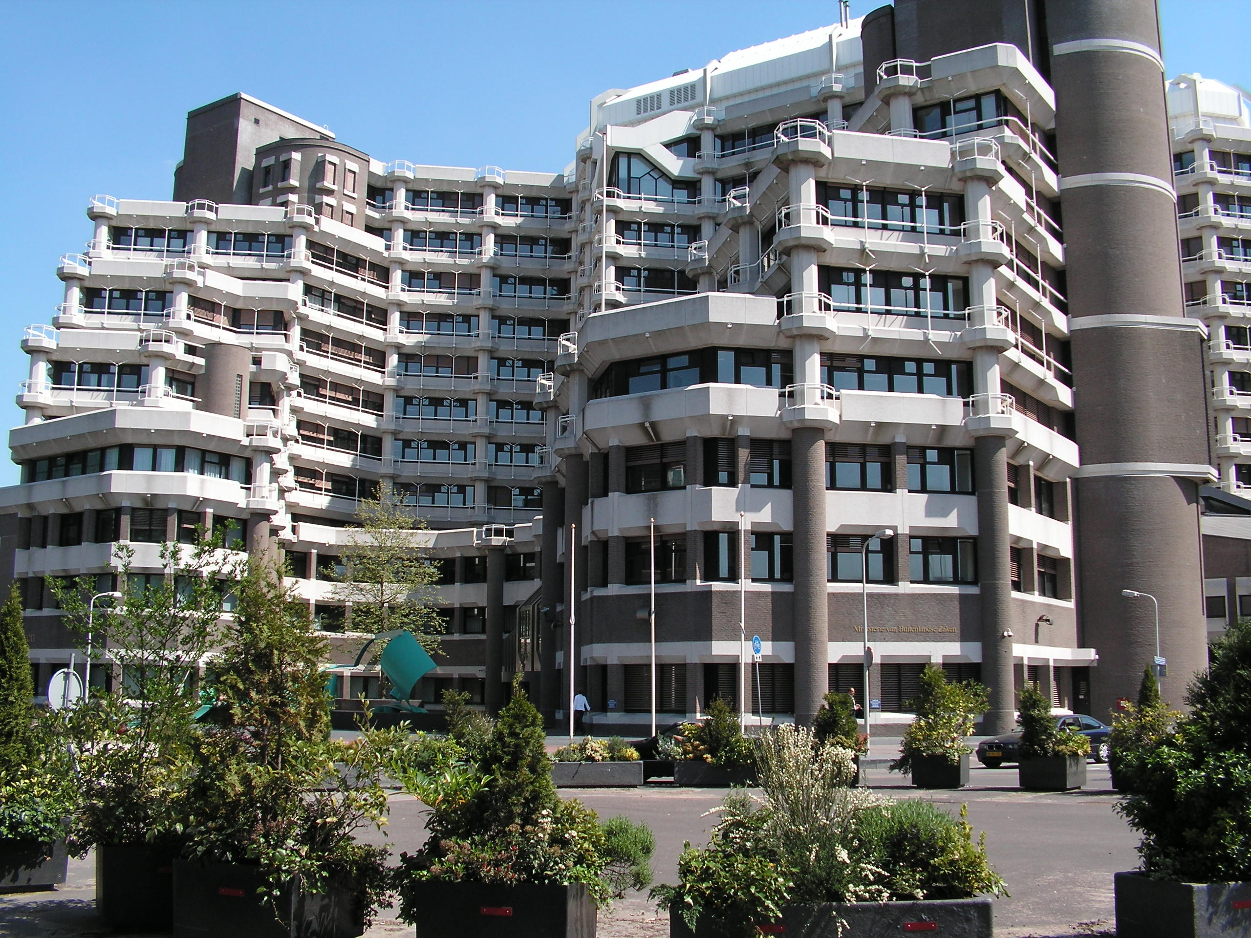 The former seat of the Dutch Ministry of Foreign Affairs (MinBuZa), the Hague. Taken by me, released to public domain.